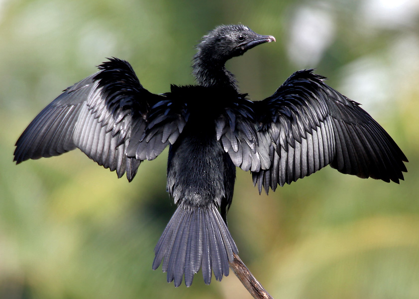 Little Cormorant Phalacrocorax niger at Lotus Pond, Hyderabad, India.